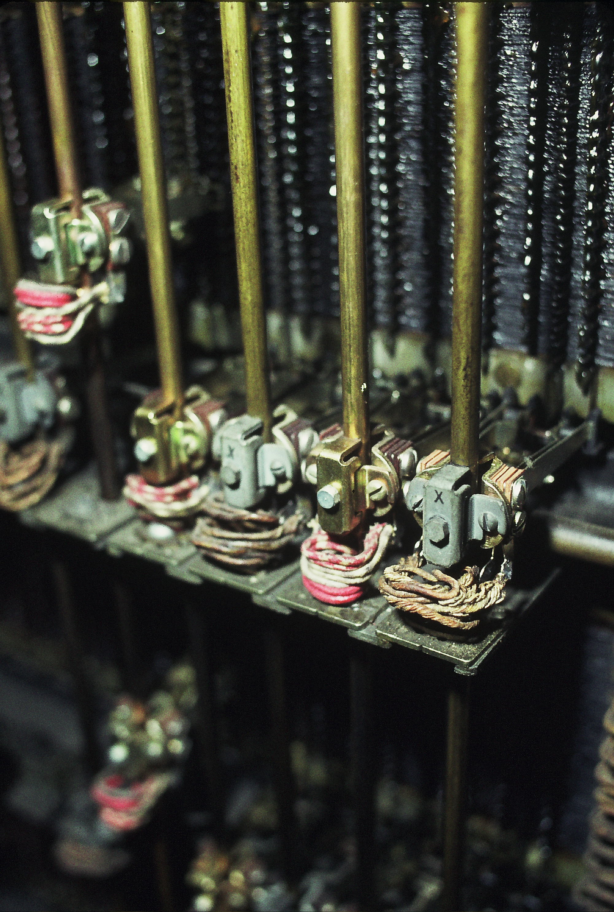 An example of a Panel GCO Line Finder Frame showing several selector rods, brushes, trip levers and bank terminals. All of the bank terminals are covered in grease. The brushes have four contacts Tip, Ring, Sleeve and Message Registration. The terminals on the banks are wired to associated Line and CutOff relays on the frame which are in turn wired to the vertical side of the IDF frame. Each Line Finder selector has an associated District selector.